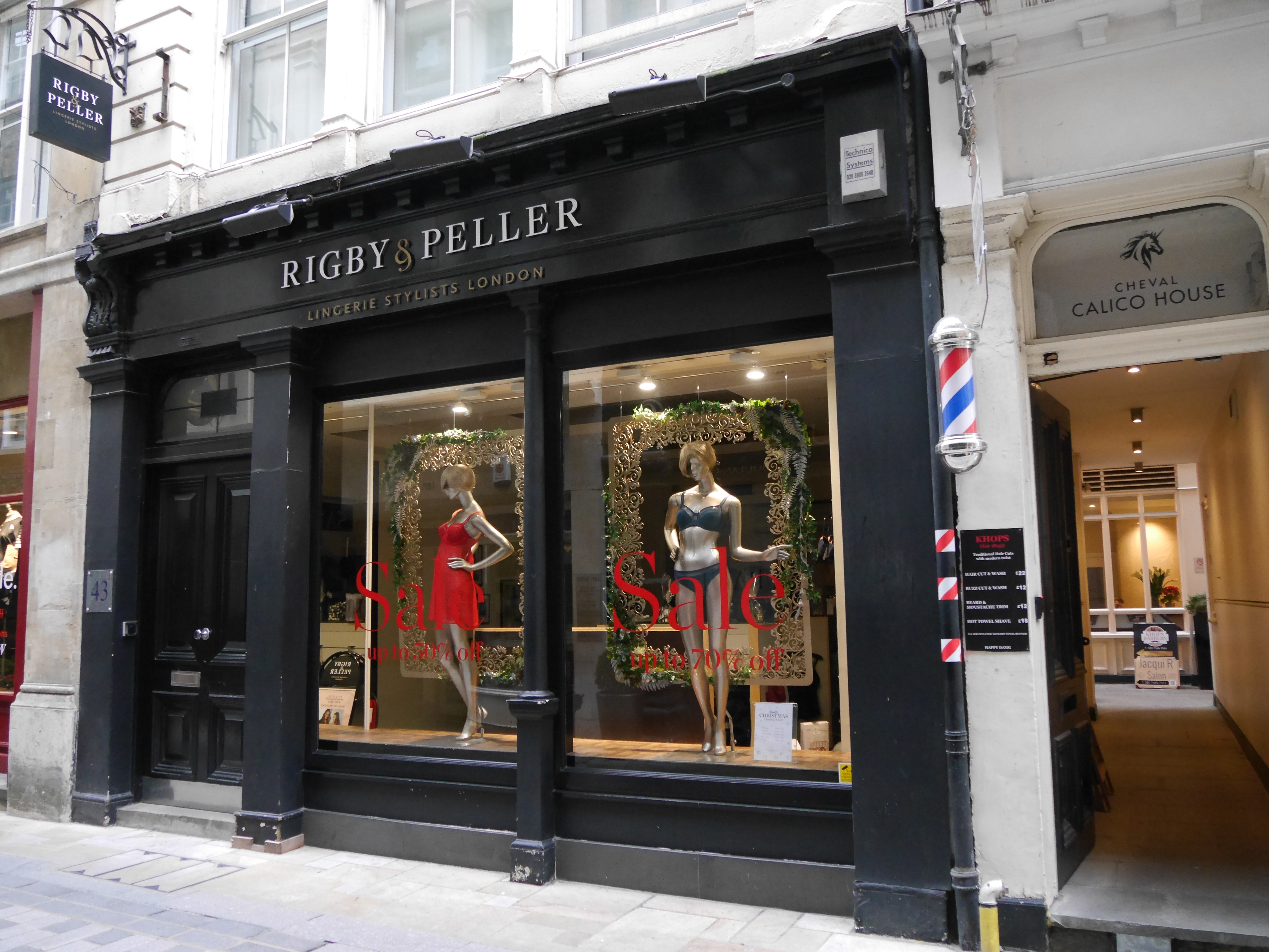 Bow Lane, London EC4, January 2018